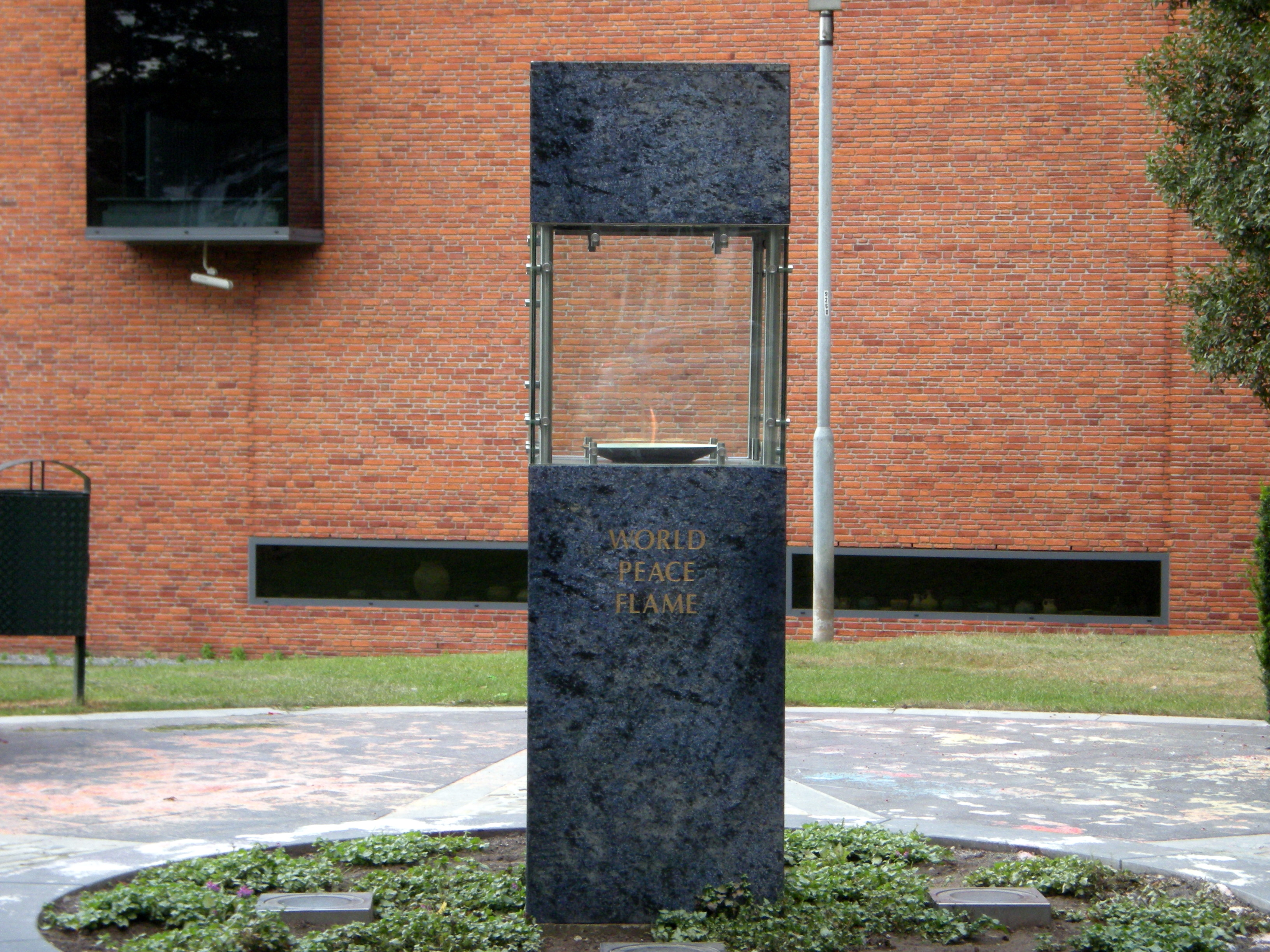 world peace flame Venlo